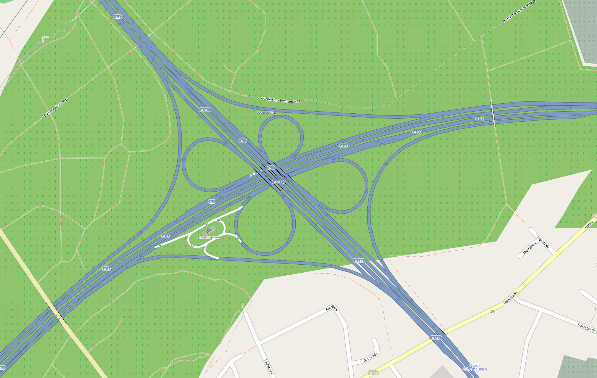 Interchange Oberhausen